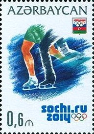 XXII Olympic Winter Games. Sochi - 2014. N 1134 - 60 qapik. Figure skating